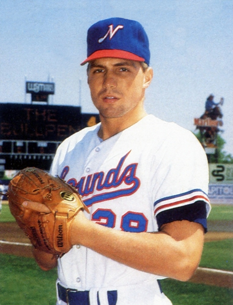 Pitcher Jack Armstrong of the 1988 Nashville Sounds Minor League Baseball team of the American Association